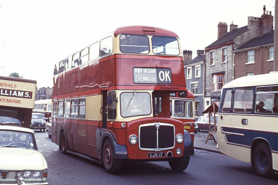 OK Motor Services owned ex Halifax Corporation 17 (LJX 17), a 1960 AEC Regent V 2D3RA with MCCW H40/32F bodywork. Seen in busy Bishop Auckland Market Place, 1974